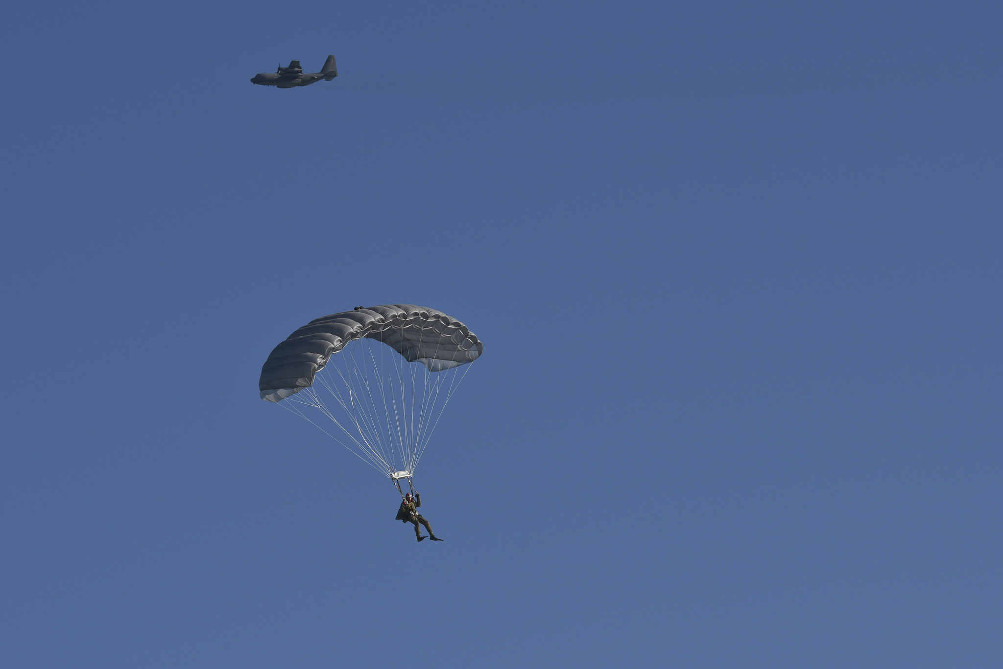 The 210th, 211th, and 212th Rescue Squadrons of the Alaska Air Guard’s 176th Wing trained on water rescue tactics in Homer, Alaska from Sep. 30 to Oct. 1, 2015. The Wing’s ‘rescue triad’ performed both day and night missions including personnel jumps and cargo drops on a moving target, flying night water operations, visual search for casualties, and drop zone control for safety and situation management. (U.S. Air National Guard photo by Tech. Sgt. N. Alicia Halla.)